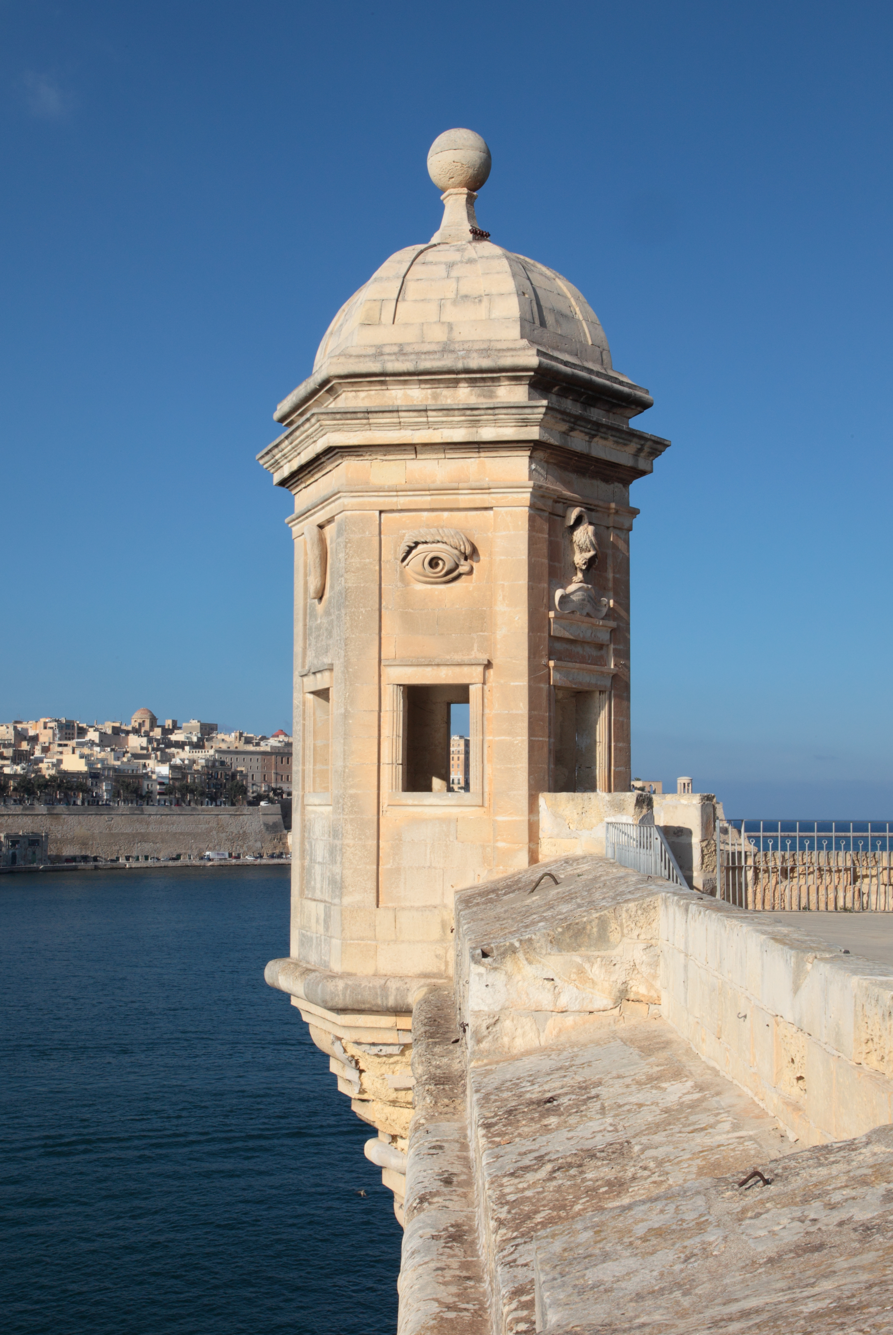 Malta, Senglea, Gardjola watch tower